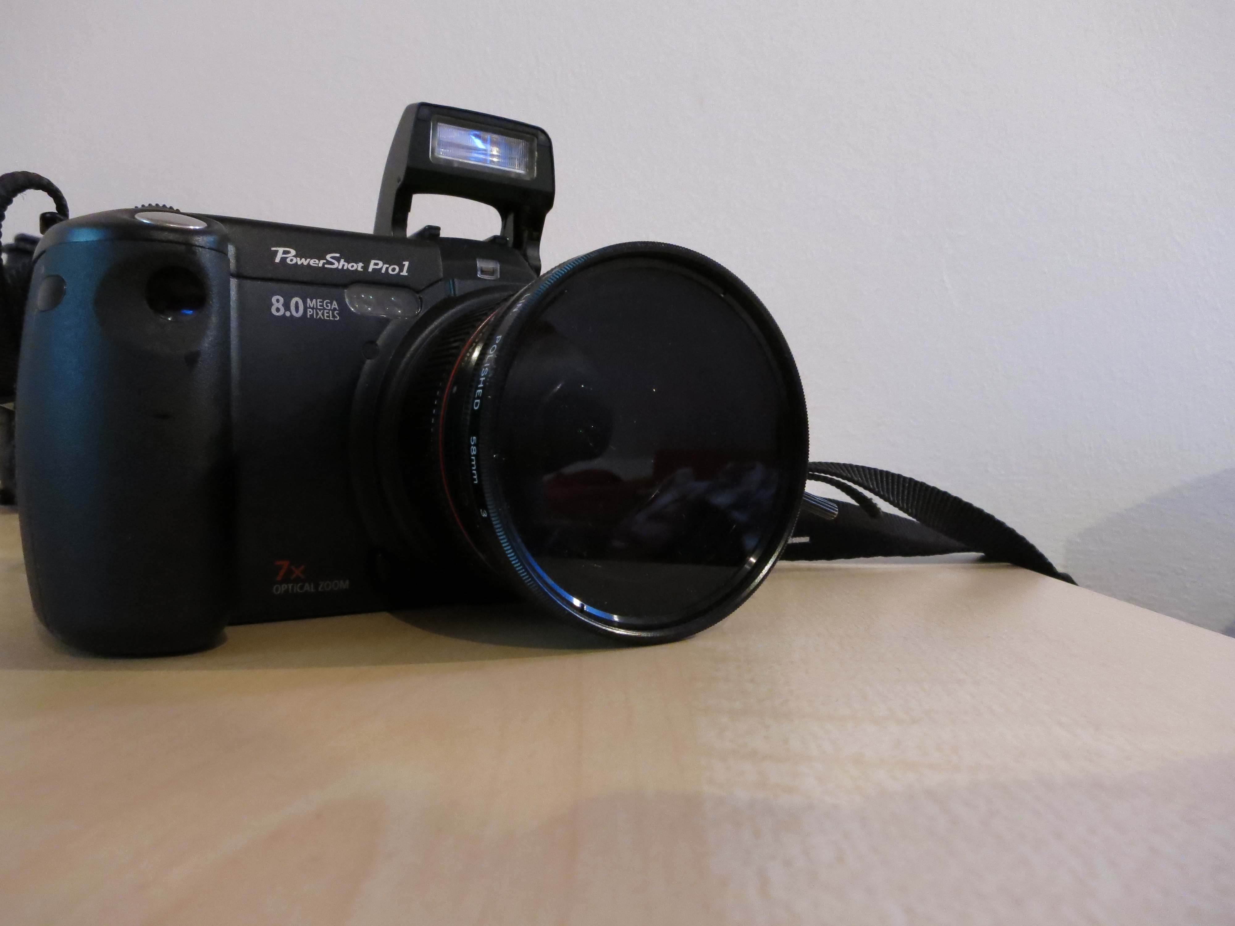 Image of a Canon PowerShot Pro1 taken with a PowerShot S110